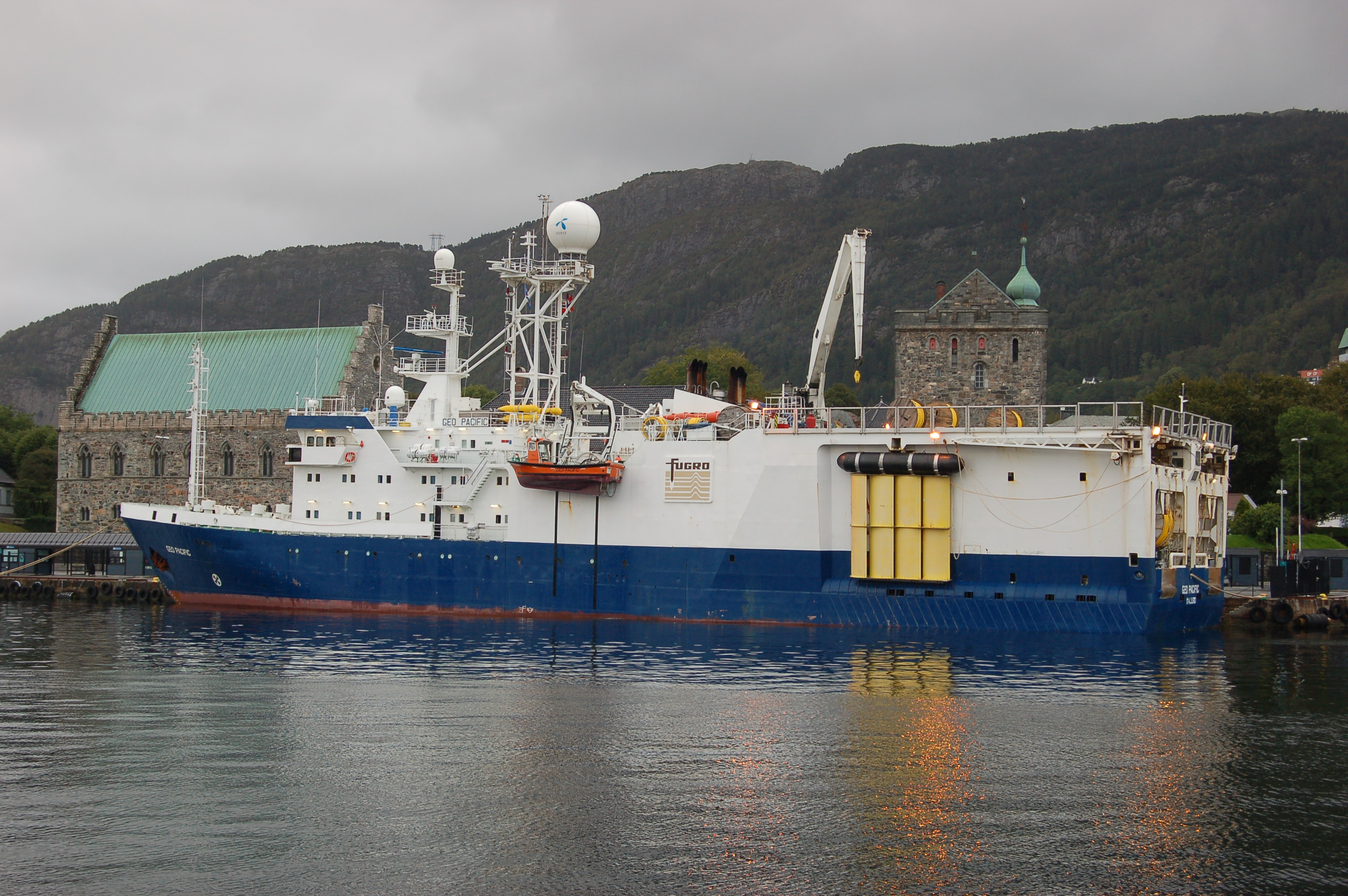 Fugro vessel Geo Pacific in Bergen, Norway Name: GEO PACIFIC MMSI: 538002914 IMO: 8408973 Call sign: V7MV9 Length: 80 m Width: 20 m